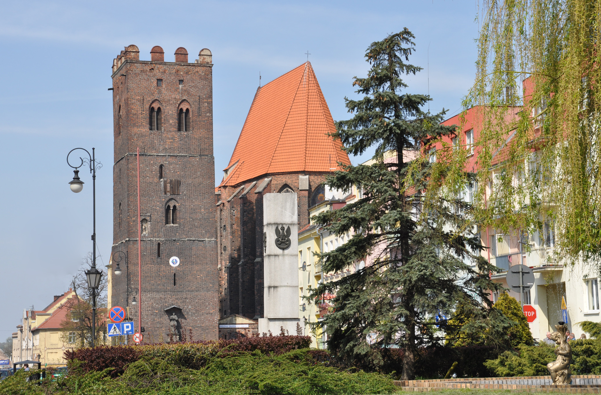 Church bell tower of St. Andrew